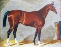 Contemporary painting of 1884 Derby winner St Gatien. Unknown artist.